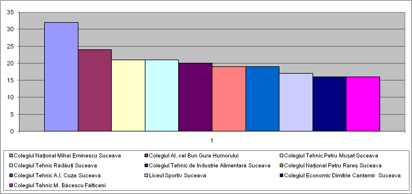 Ştefan cel Mare University in Suceava - main high schools of origin of the students of the Faculty of History and Geography.